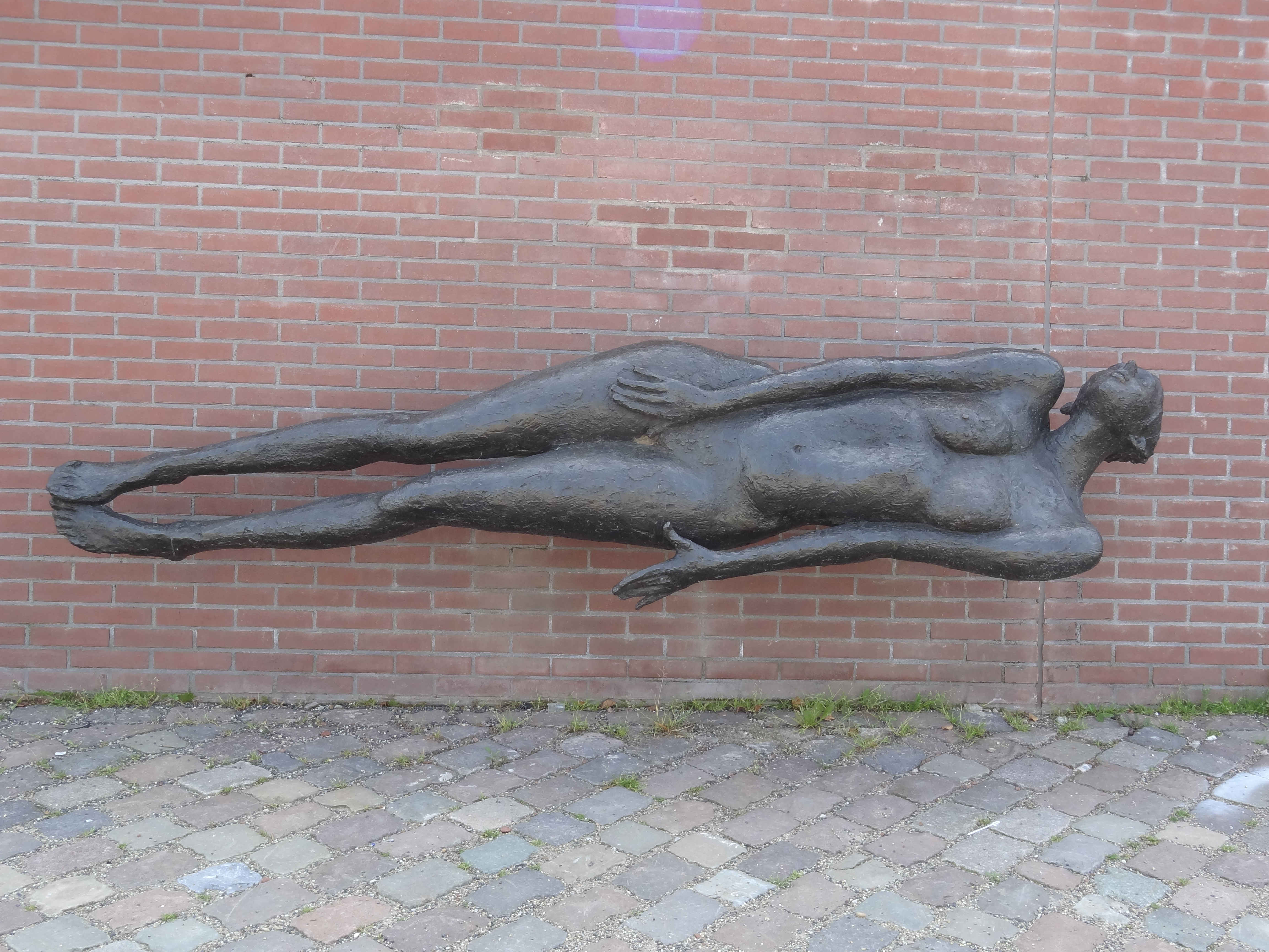 Sculpture "Wachteres" (Female guard) created by Paul de Swaaf on the retaining wall of the Waalkade near the Oude Haven in Nijmegen, The Netherlands